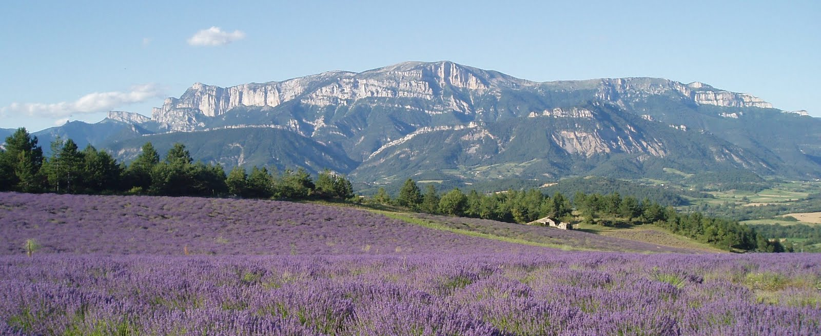 Glandasse Mountain and Dôme du Pié Ferré summit (2 040m), view from Barnave town.